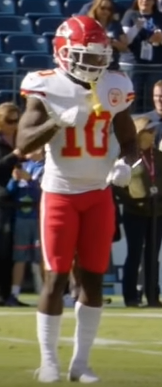 Tyreek Hill 2019. Image taken from video Titans Mic'd Up vs. Chiefs (Week 10) | Sounds of the Game ~ 00:31